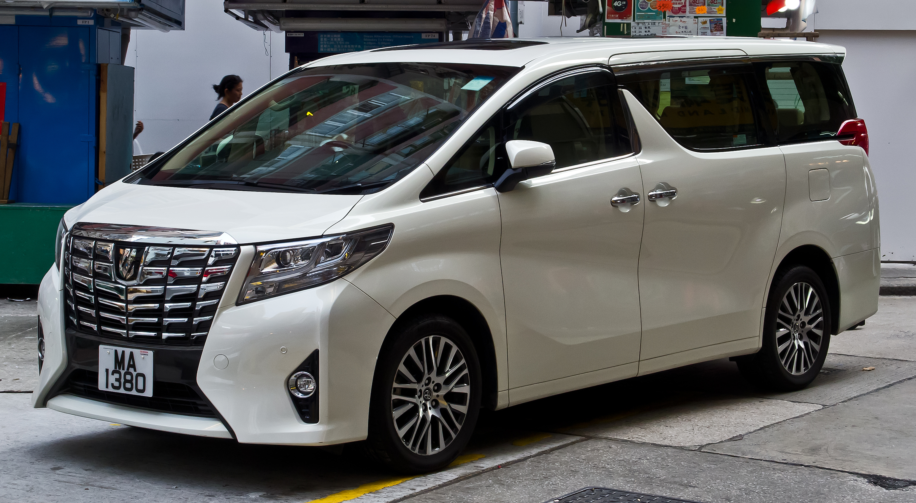 Toyota Alphard 350 V6 (III)